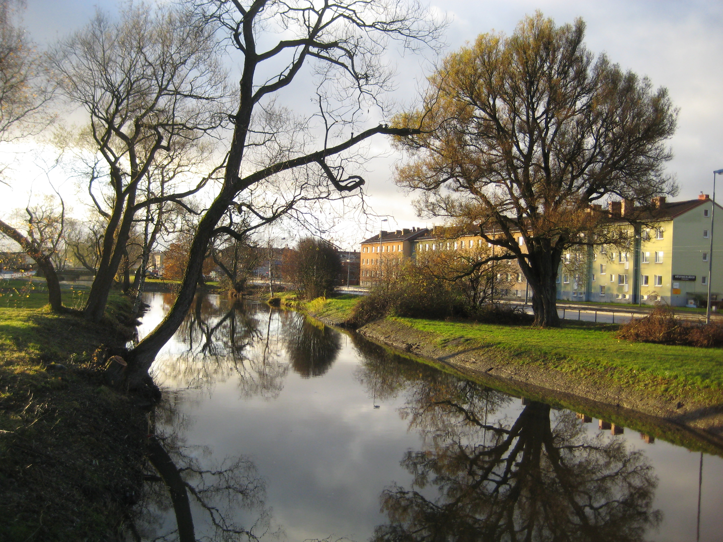 The stream of Mölndalsån south of Gothenburg after the dredging 2007. View from Lackarebäcksmotet towards south-south-east: Bosgården at Göteborgsvägen.